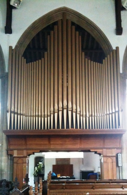 The organ, St Nicholas Church, North Walsham